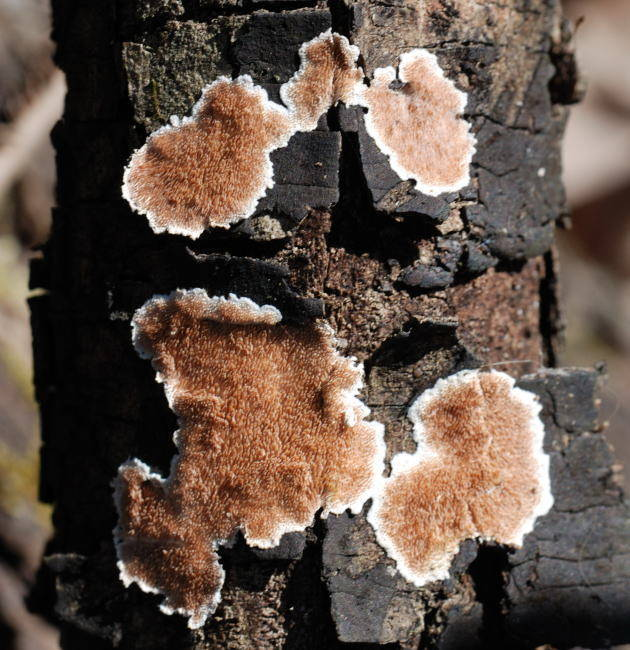 The crust-like fungus Steccherinum ochraceum (Pers.) Gray. Specimen photographed in Port Dover, Ontario, Canada.